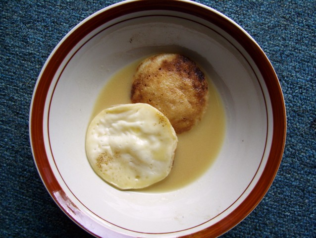 surabi with sweet sauce